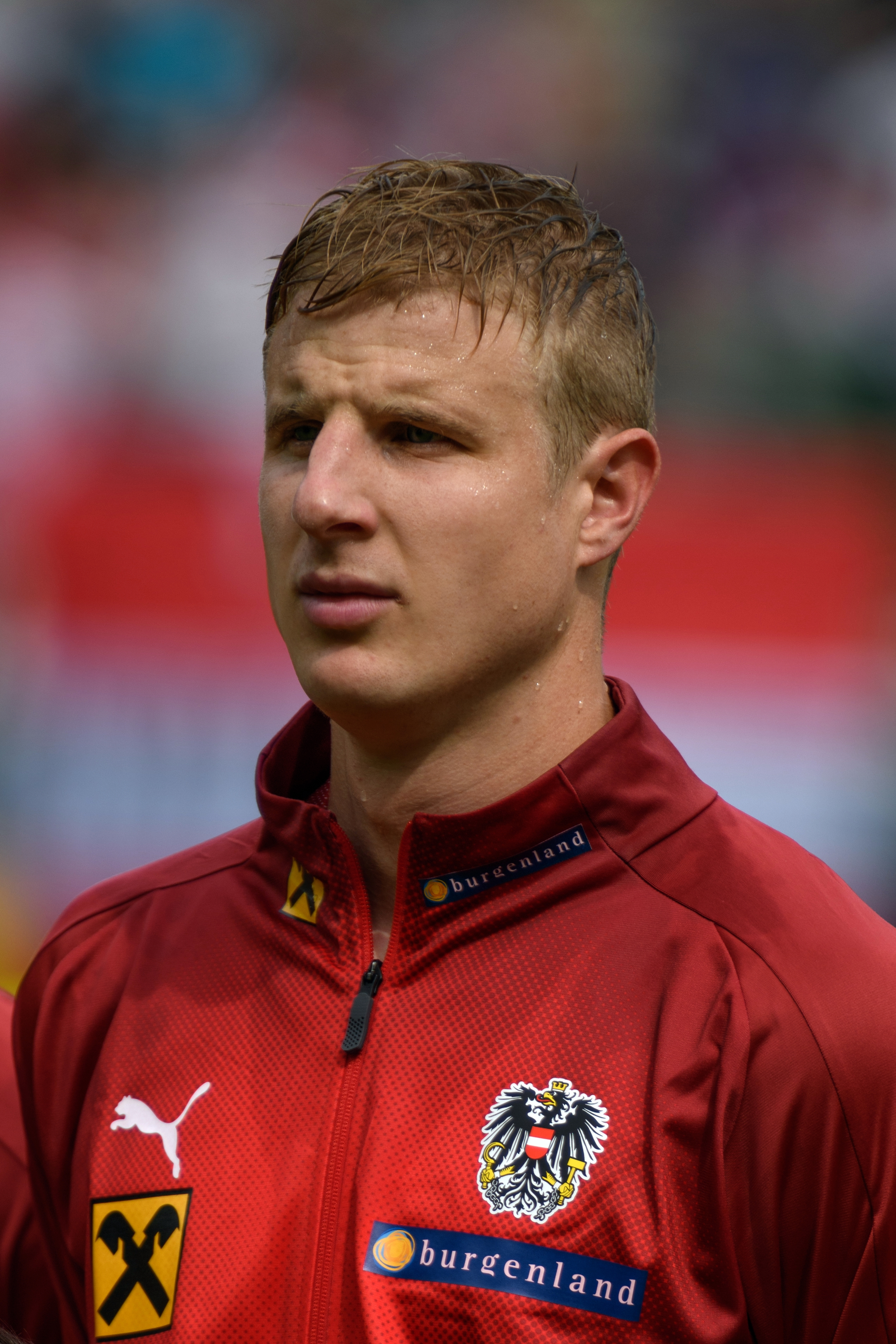 FIFA Friendly Match Austria vs. Brazil 2018/06/10 in Vienna/Ernst-Happel-Stadium. Picture shows Martin Hinteregger (AUT)